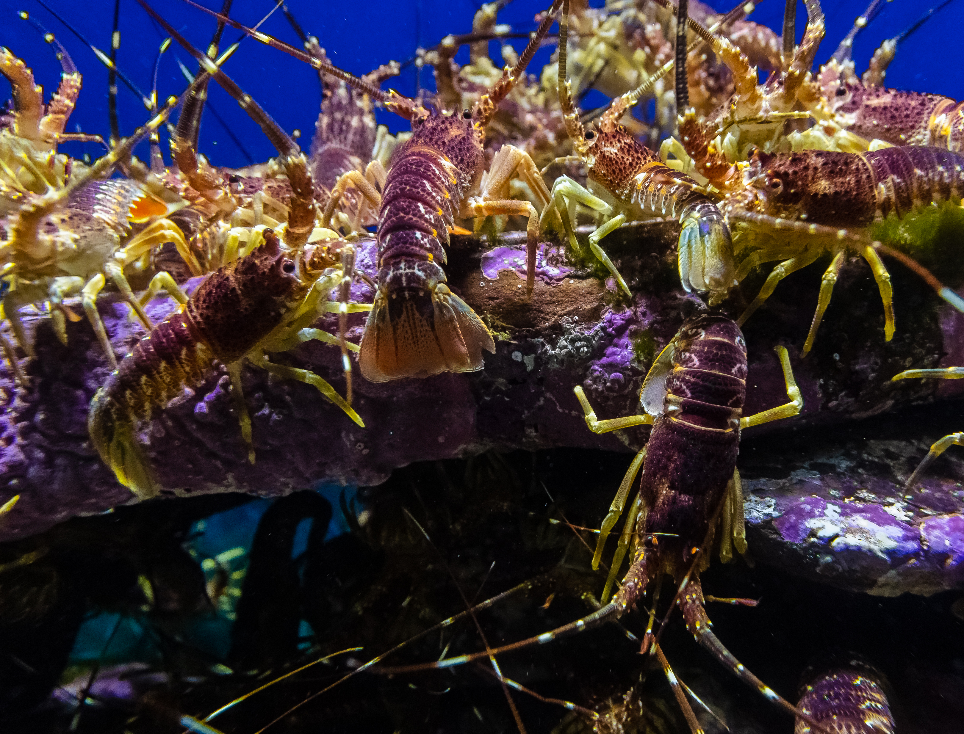 South Coast rock lobster (Palinurus gilchristi), Cape Town Aquarium, South Africa